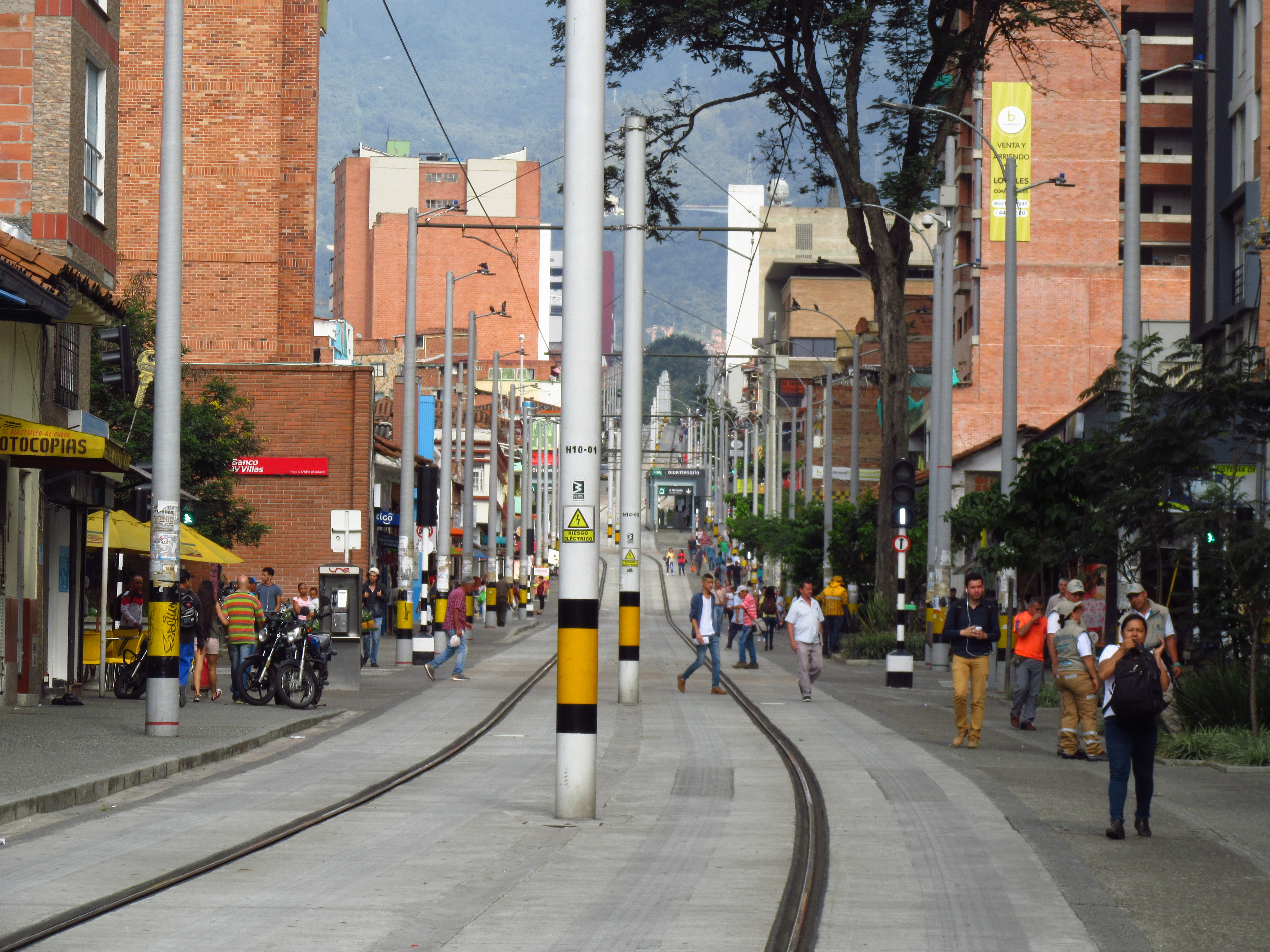 Medellín